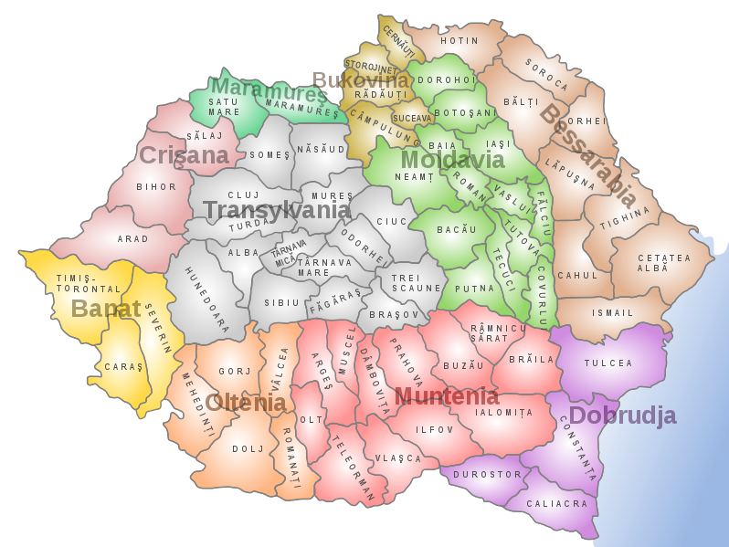 Own work.